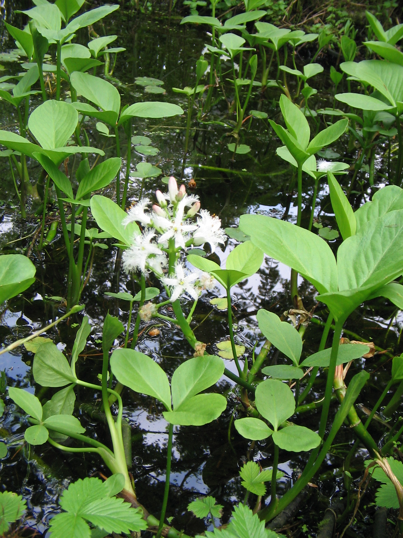 Menyanthes trifoliata in my pond